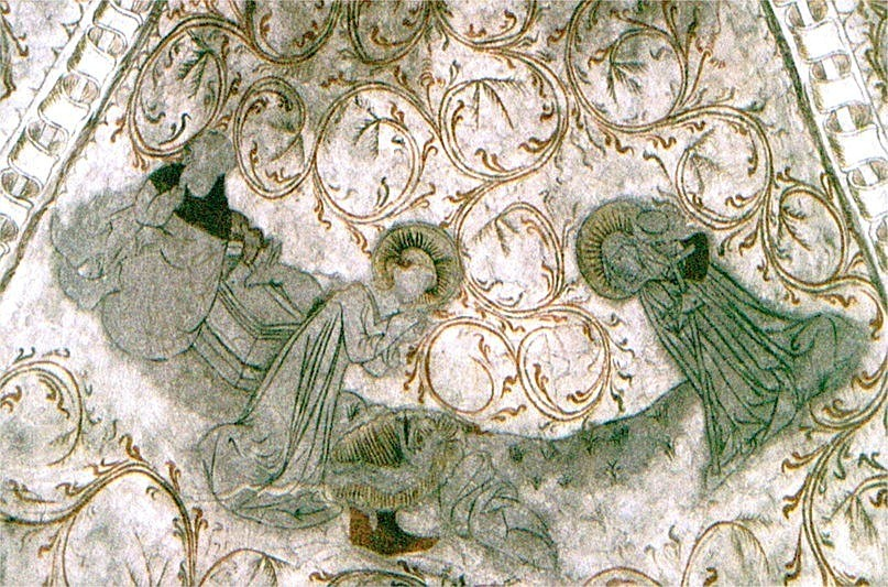 Undløse kirke in Holbæk kommune, Denmark. Famous for its frescoes made by Unionsmesteren from apr. 1430.